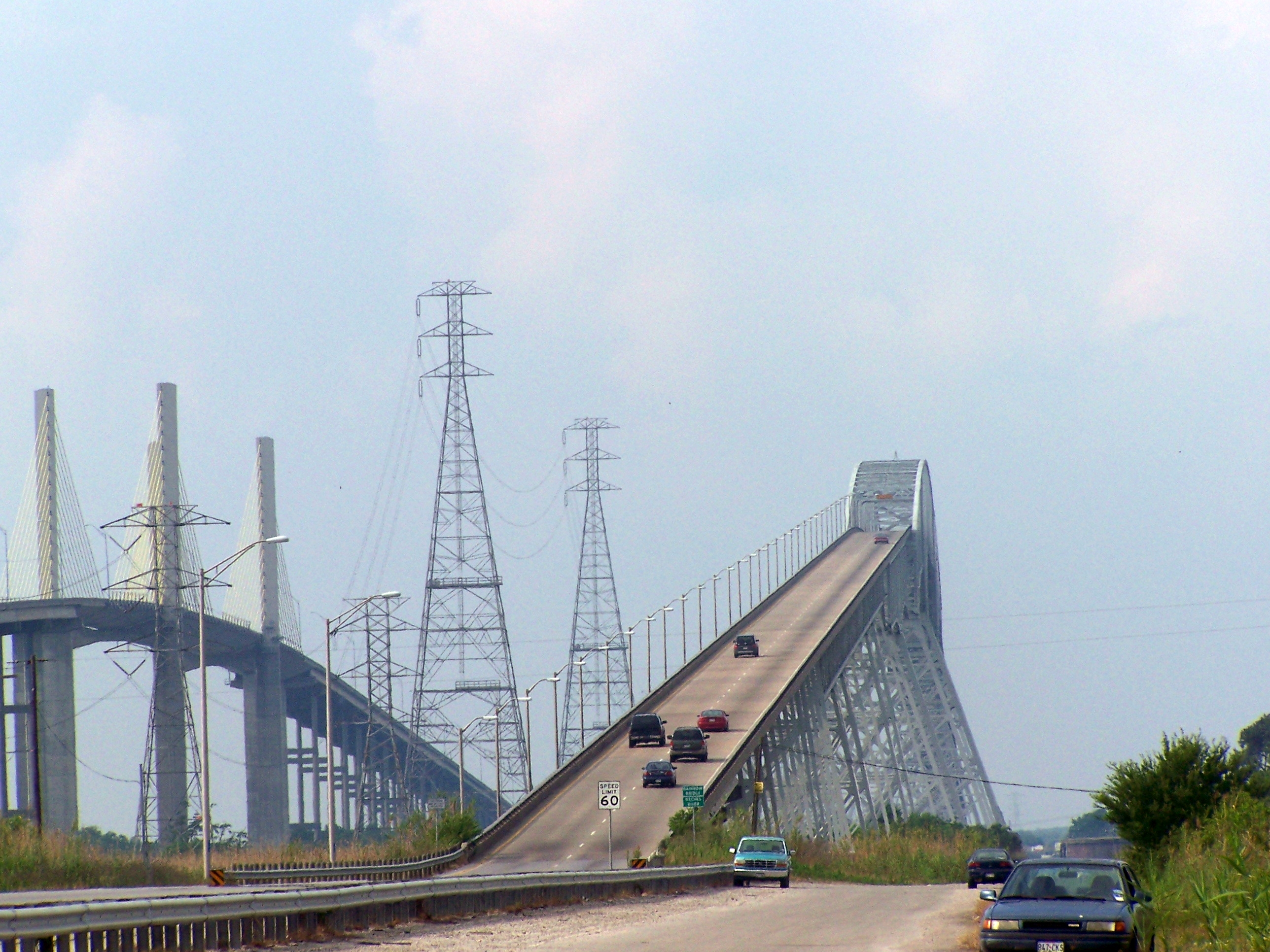 View of the westbound approach to Rainbow Bridge in Orange County, Texas. Veterans Memorial Bridge, opened in 1990, is seen to the left.